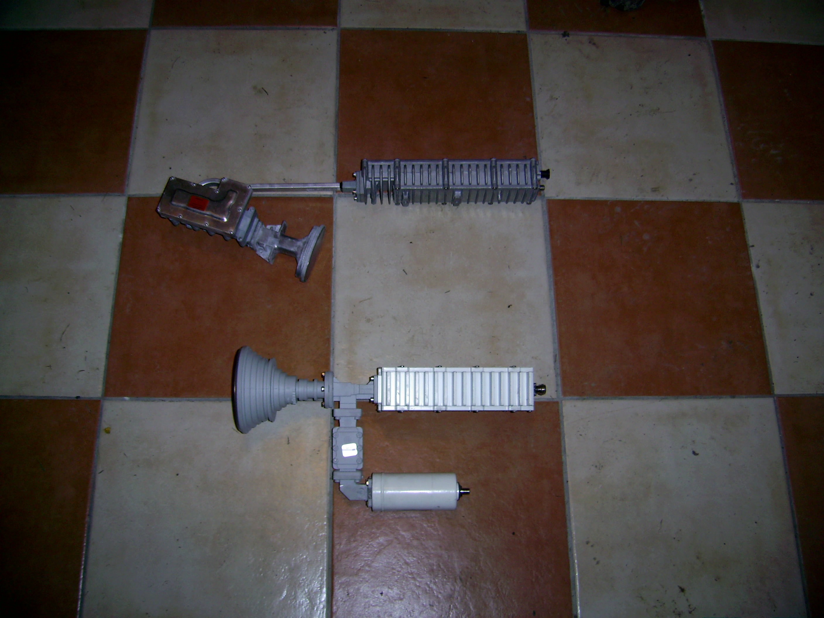 ODU BUC, OMT LNB avec Feed-Horn